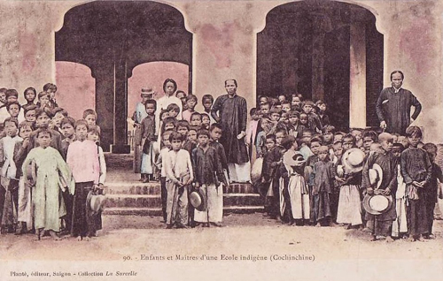 Primary school before 1945 in Vietnam